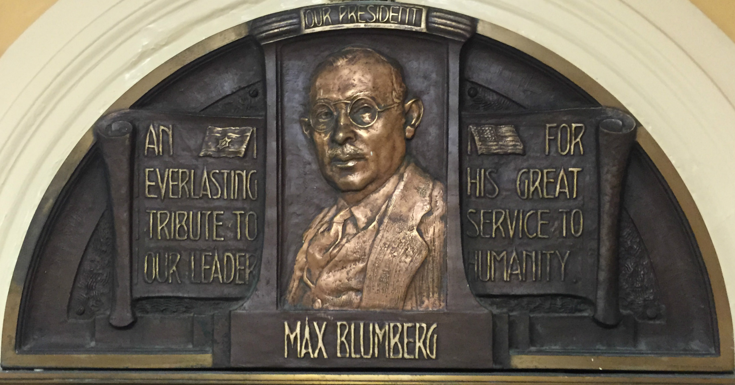 Founder and first former President of The Jewish Hospital and Sanitarium for Chronic Diseases